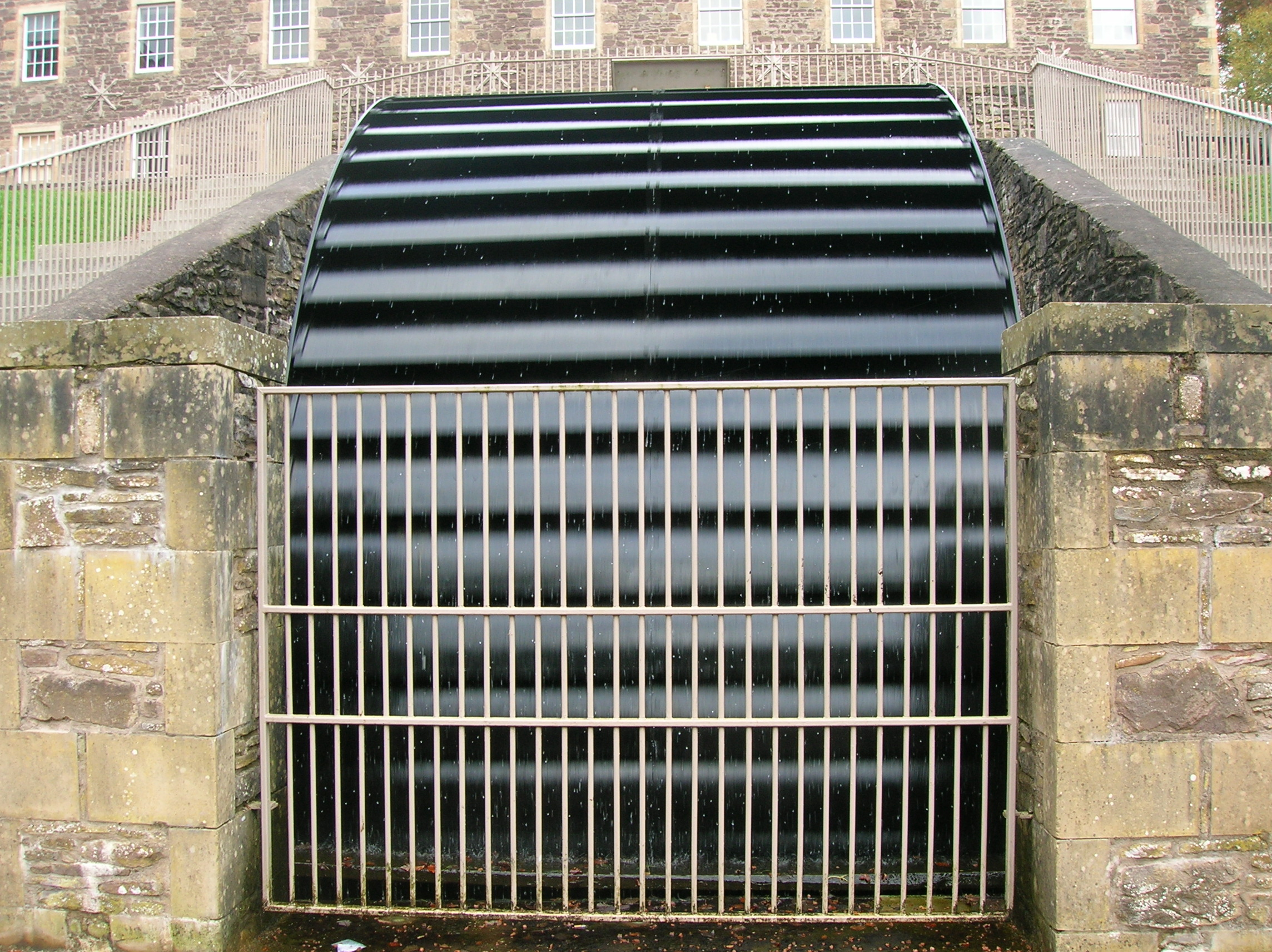 A Waterwheel at New Lanark World Heritage Site, Lanarkshire, Scotland.